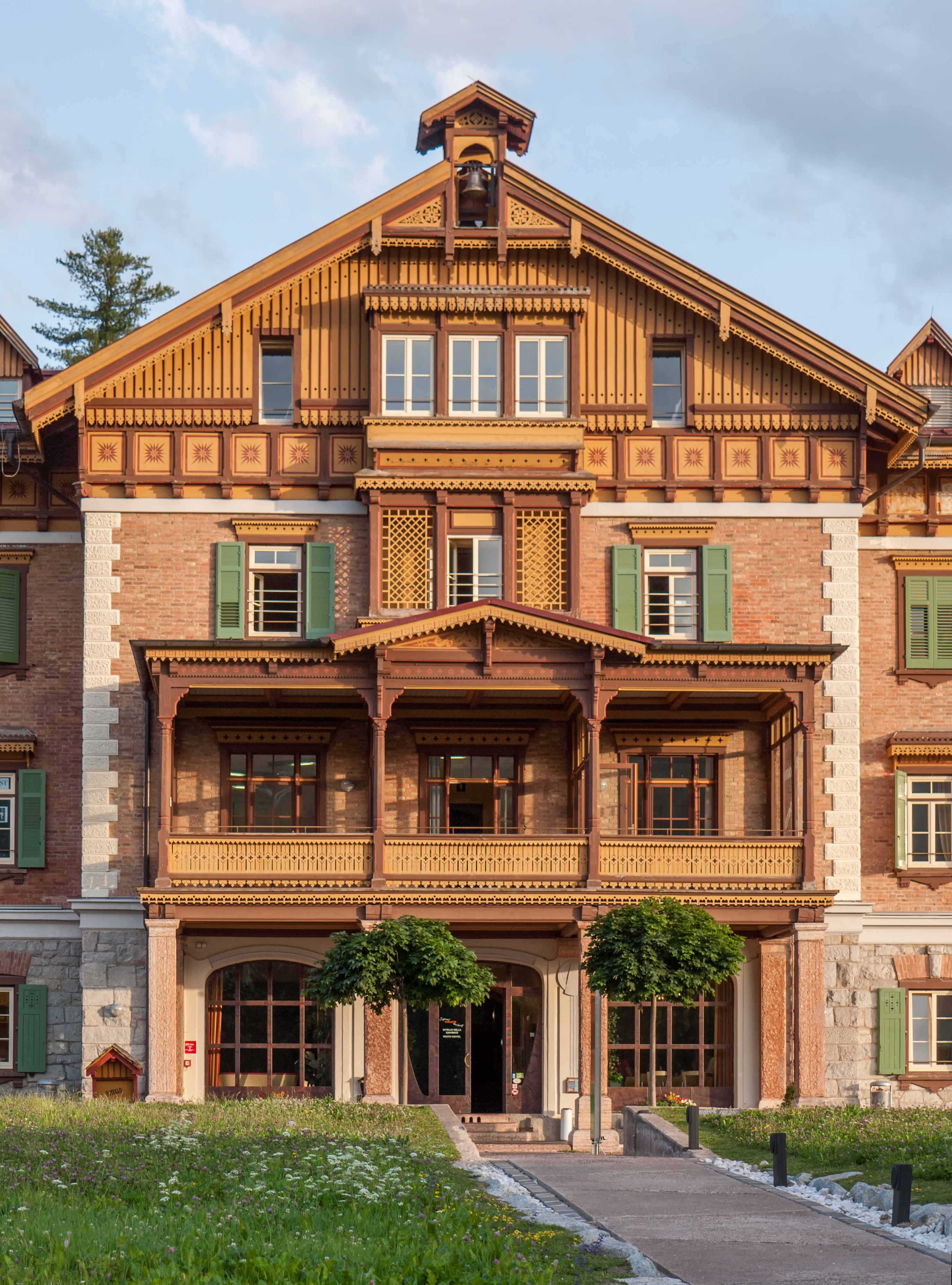 Entrance of the Grandhotel in Toblach (Dobbiaco)